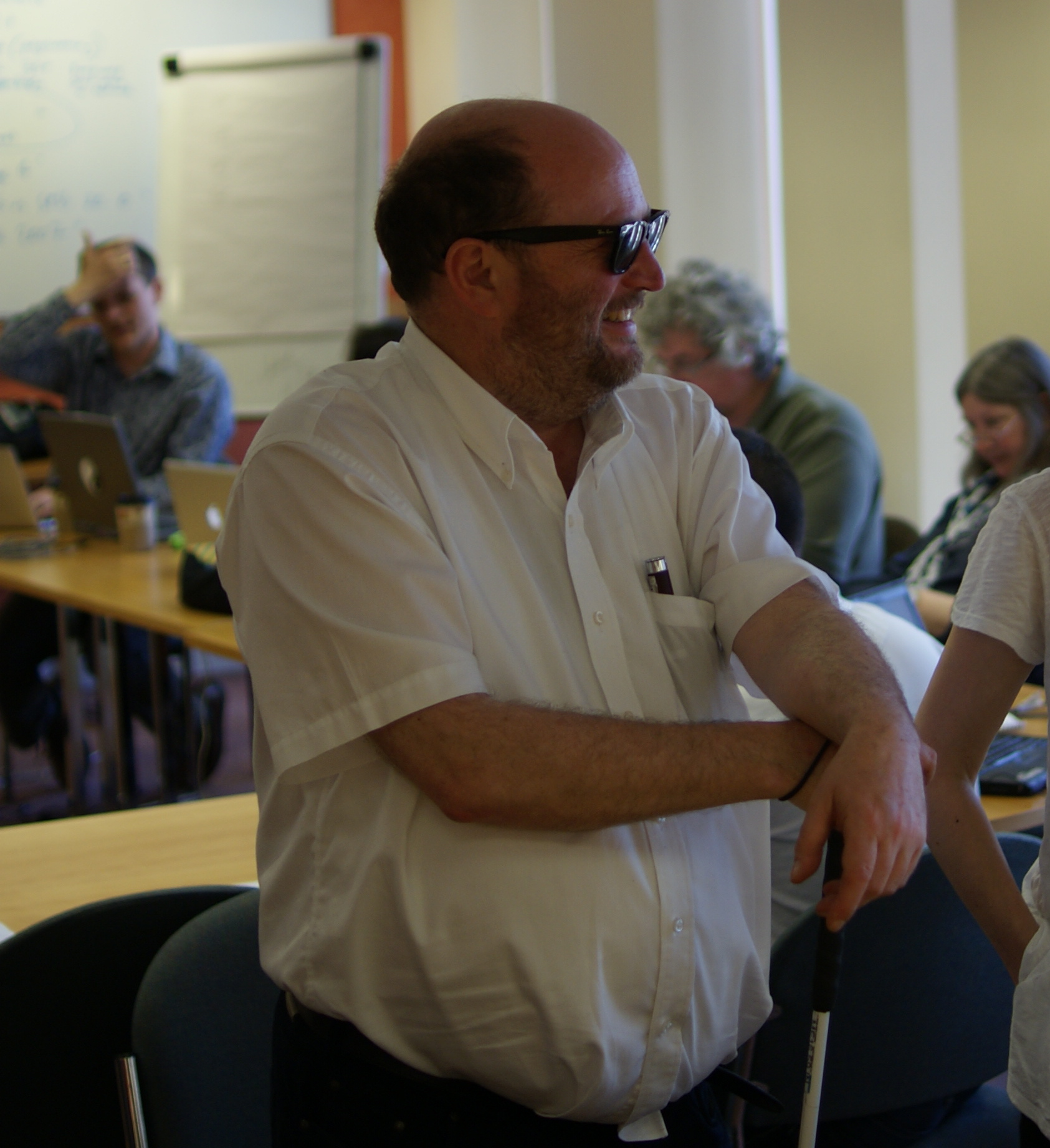 Dr. Robert David Stevens, Reader in Computer Science at the University of Manchester, UK